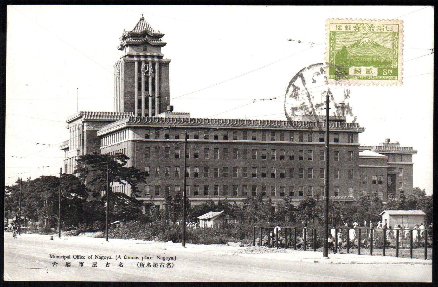 Japan 1934 stamped real photo postcard showing the municipal office of Nagoya (Nagoya City Hall Main Building)